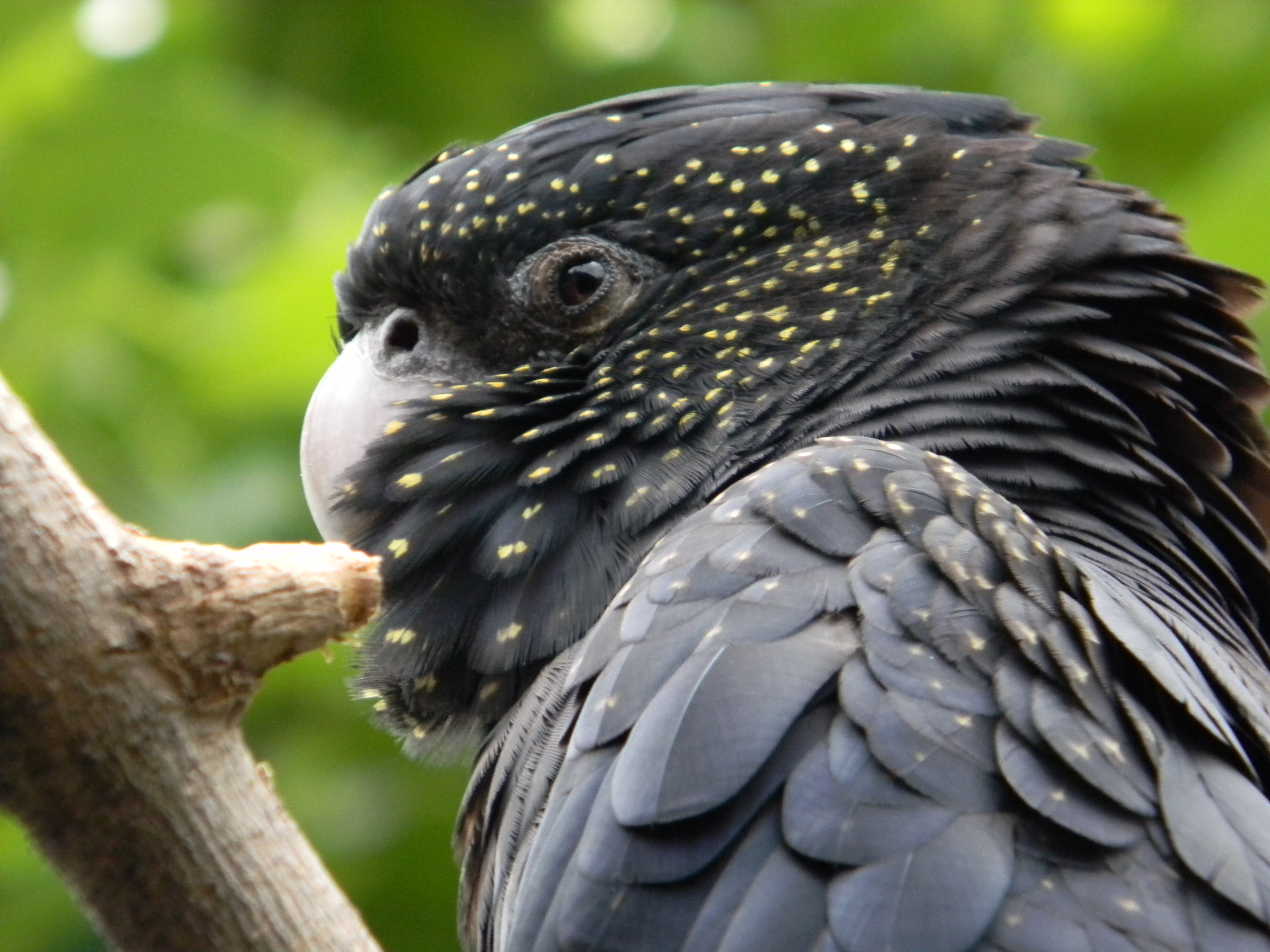 Red-tailed black cockatoo Calyptorhynchus banksii naso